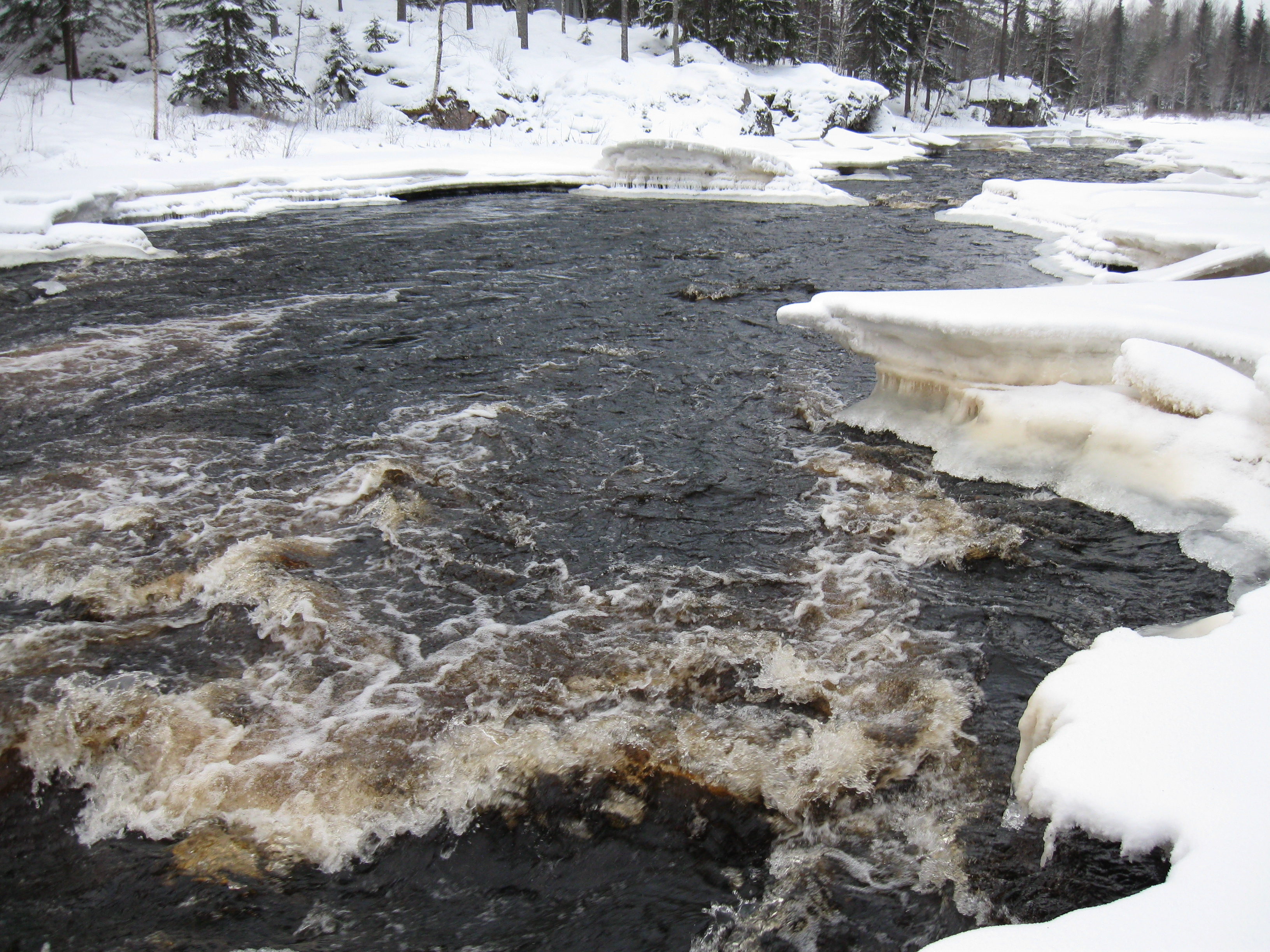 A scene from Kurimonkoski, Särkijärvi, Utajärvi, Finland